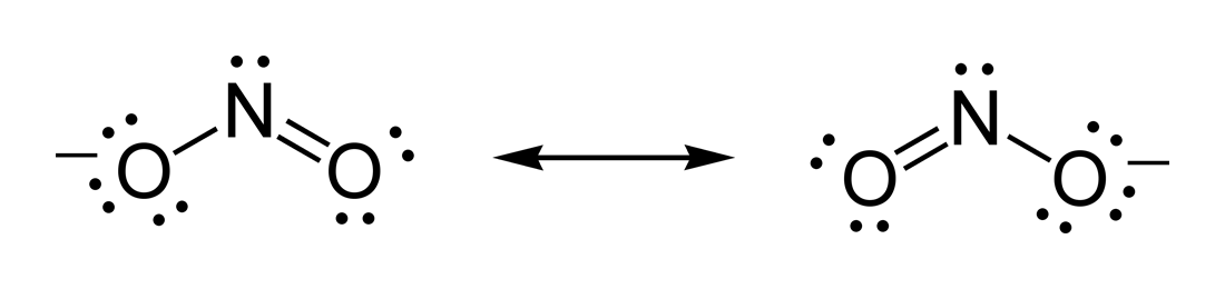 Two lewis structures of the canonical structures of the nitrite ion, NO2−.